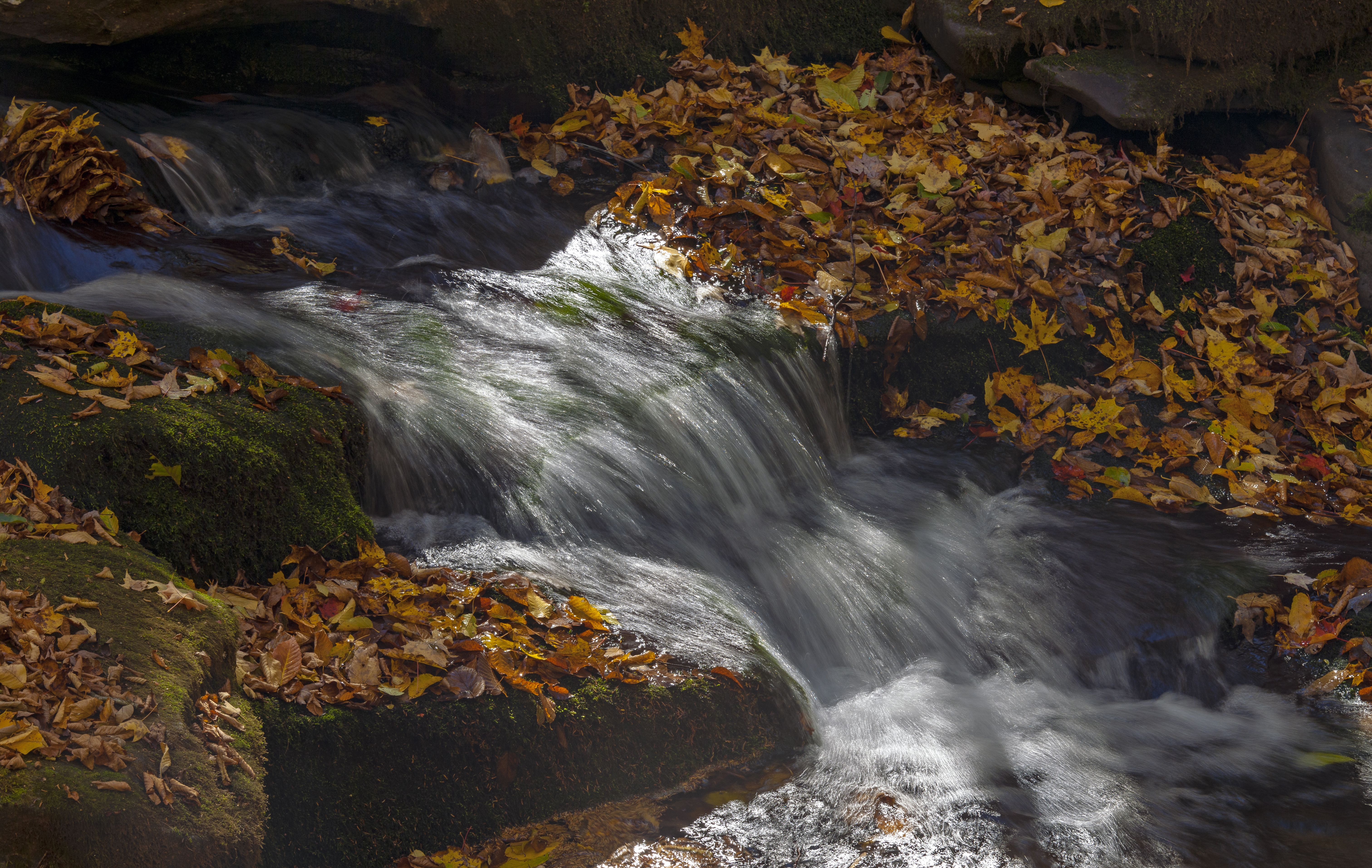 A small rapid/cascade in the West Kill below Diamond Notch Falls in the Catskill Mountains